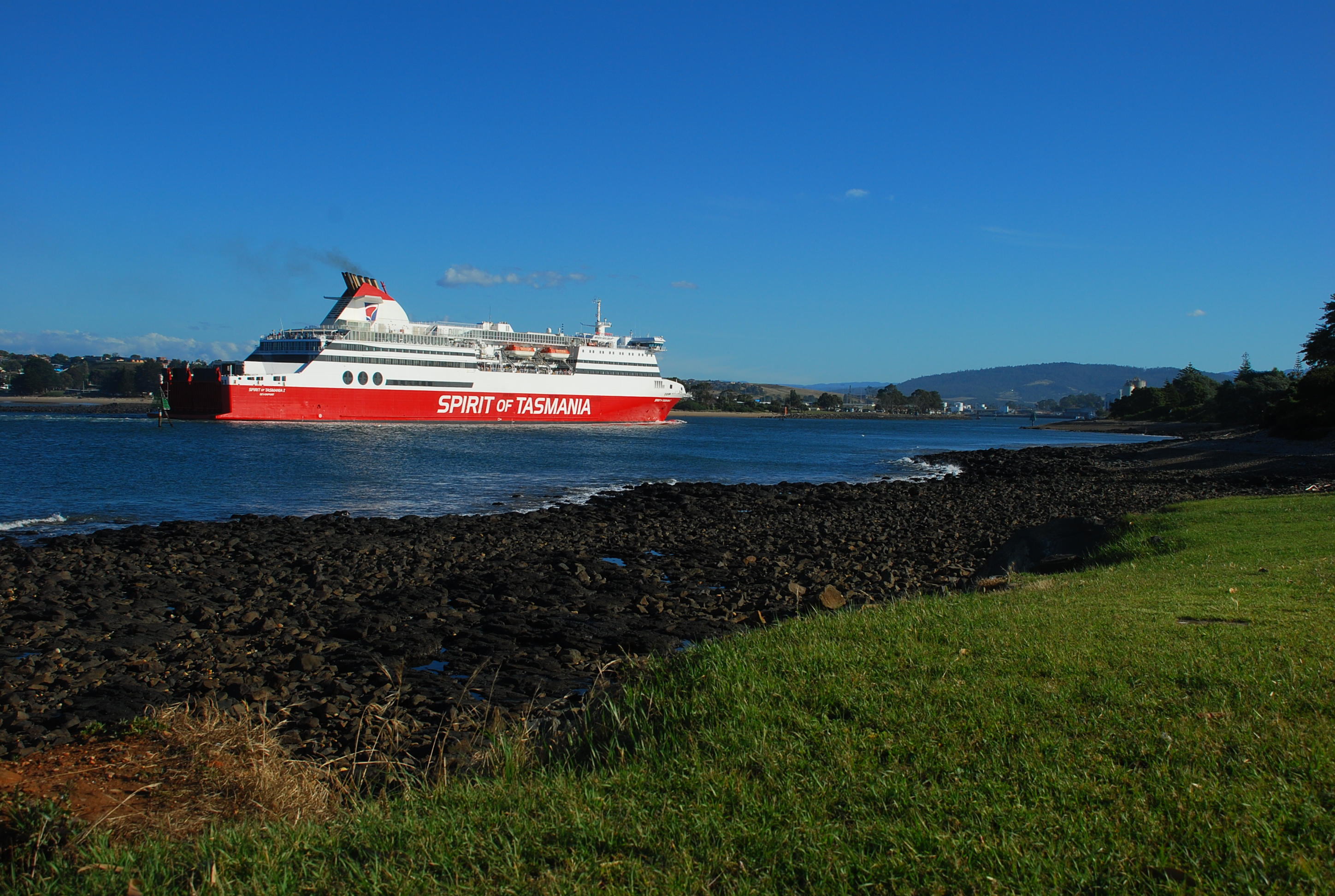 Spirit of Tasmania I enters into Devonport city